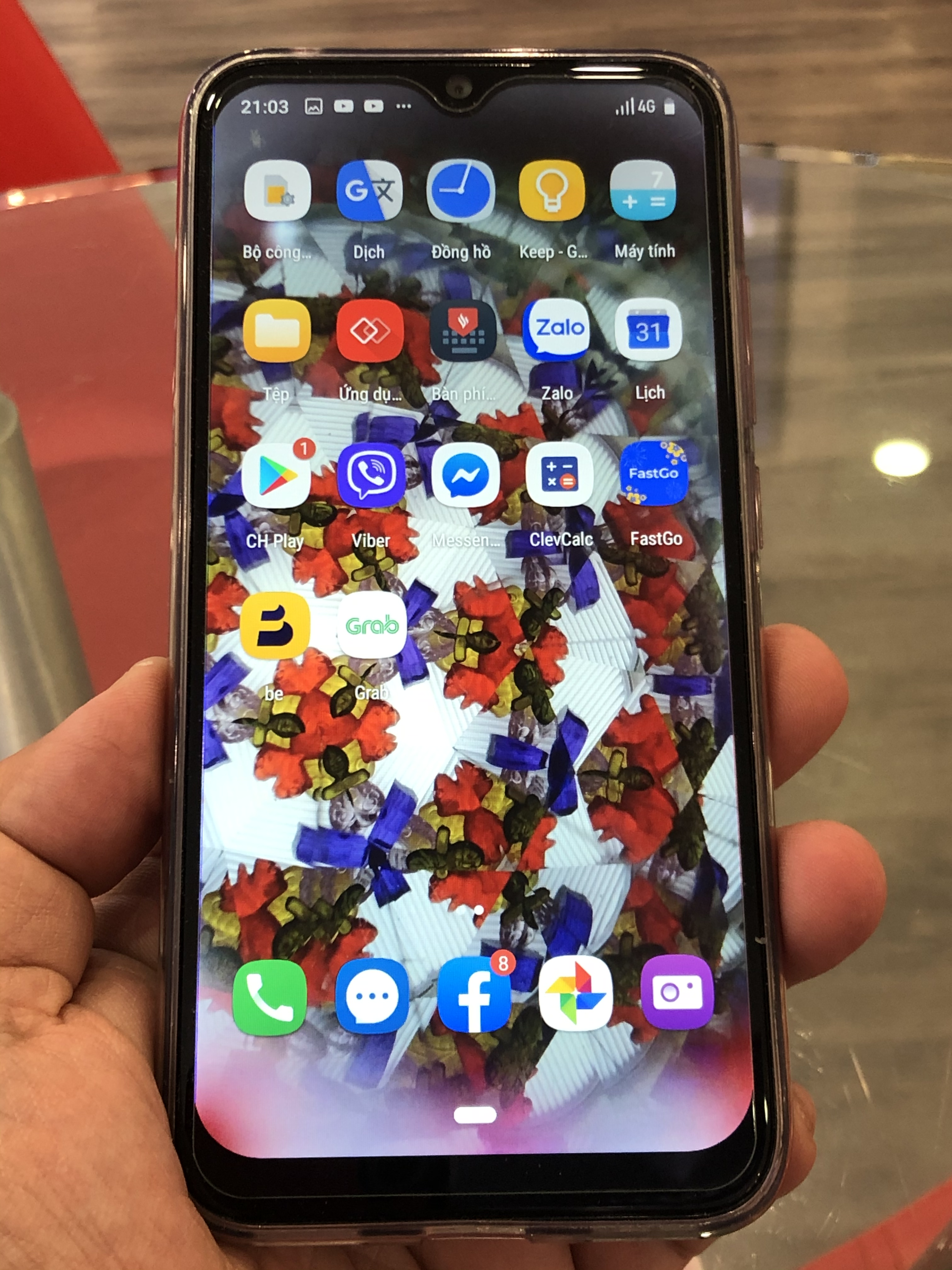 VSmart Joy 2+ phone with background from kaleidoscope